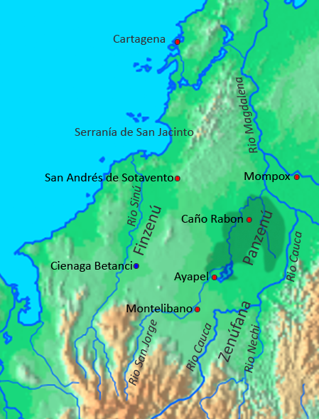 Area in Northern Colombia where the Zenú indigenous culture developed from 200 BC until 1600 AD. Except for Cartagena and Mompox, the places and rivers noted in this map are relevant to the history of the Zenú. The darker green area around Caño Rabon is the place where the Zenúes built their largest irrigation and drainage works.